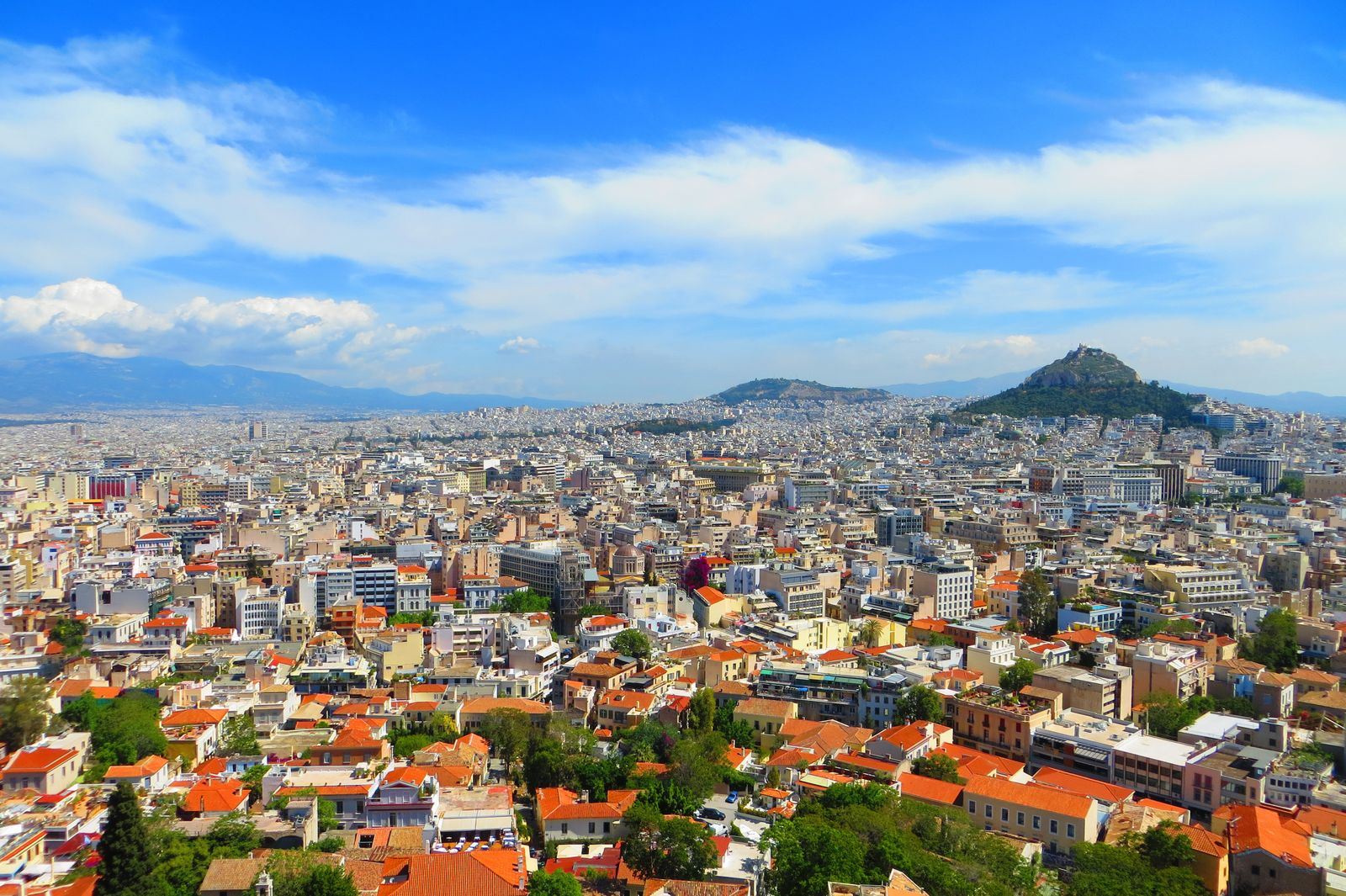 View from Acropolis of Athens